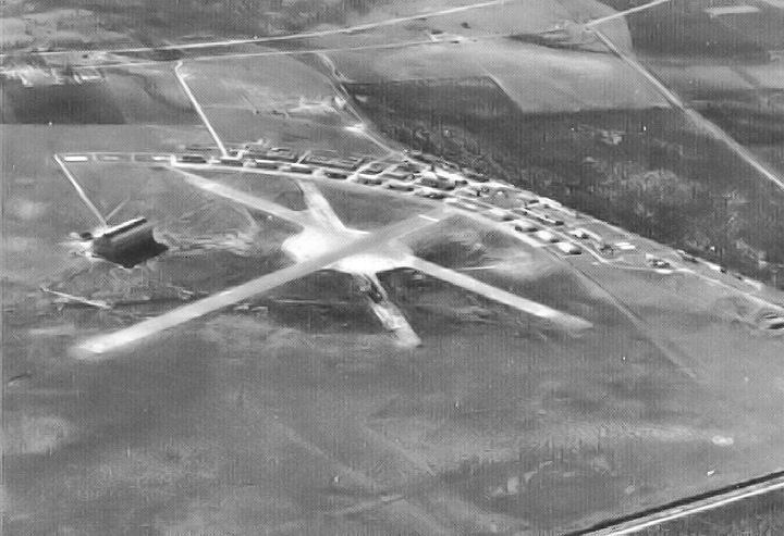 Brooks Field Texas 1939